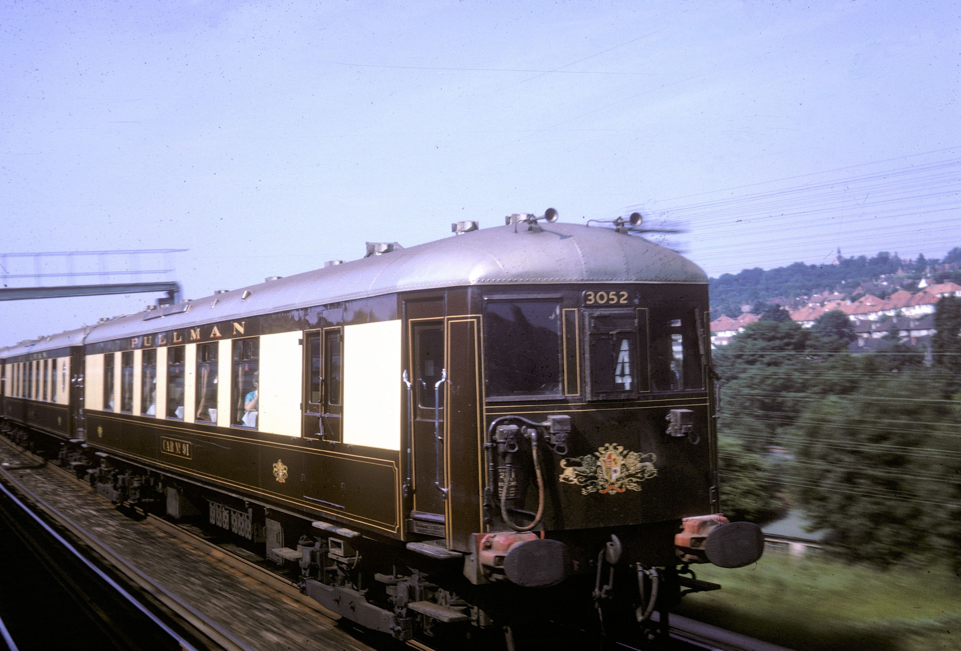 The Brighton Belle passing Purley Oaks at speed in June 1964. The all-Pullman train was still very much in her prime.